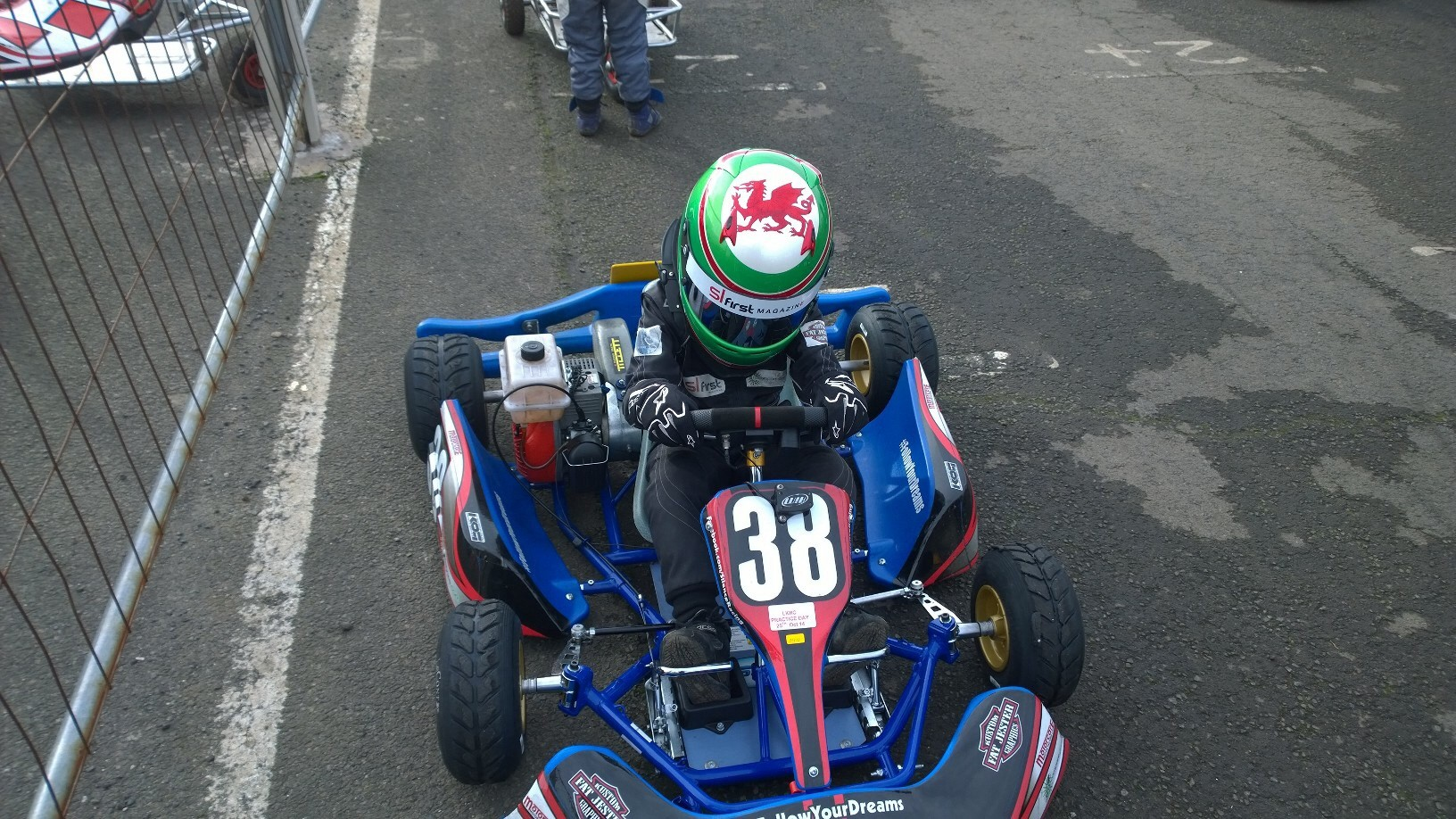 Deaf Go Kart driver Caleb McDuff wearing his 'Wales' inspired artwork on his crash helmet.